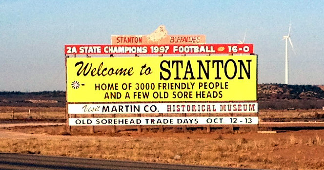 Welcome to Stanton, Texas sign on US I-20 West.